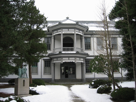 Asaka Historical Museum